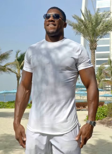 Anthony Joshua in 2017